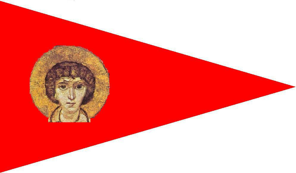 the war banner of the Ghassanid Kingdom, bearing the picture of St.Sergius.